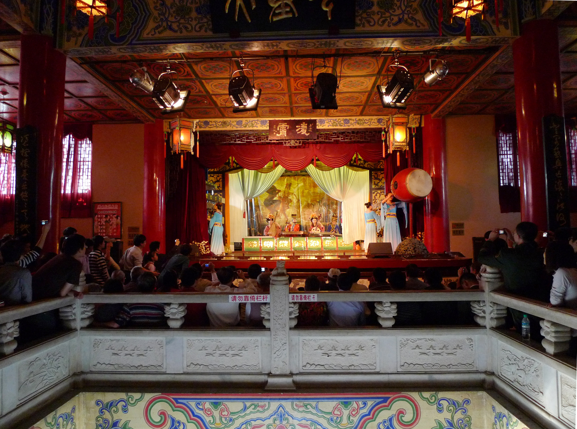 Third floor stage in Pavilion of Prince Teng